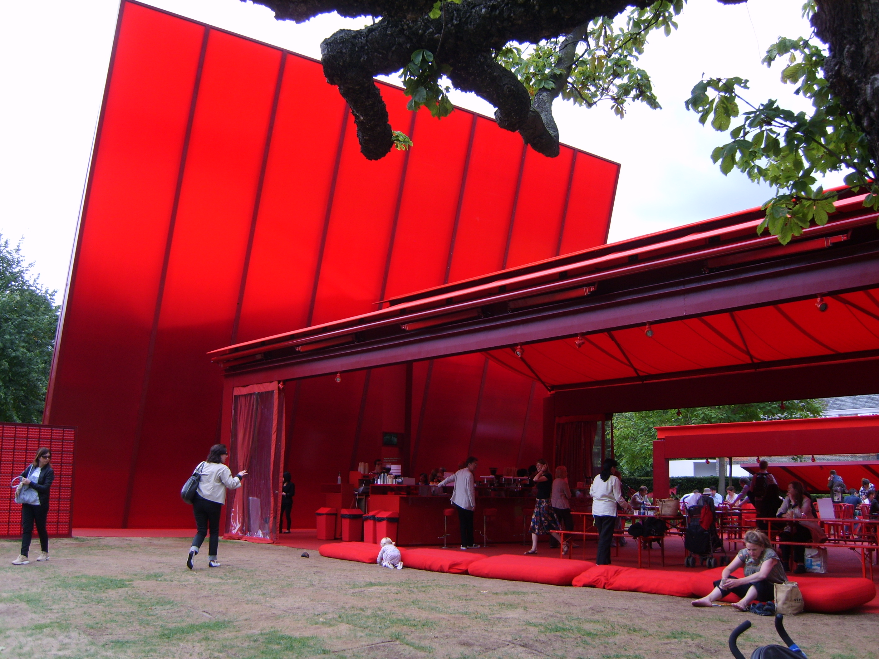 External view of 2010 Serpentine Pavilion by architect Jean Nouvel at the Serpentine Gallery, Hyde Park, London